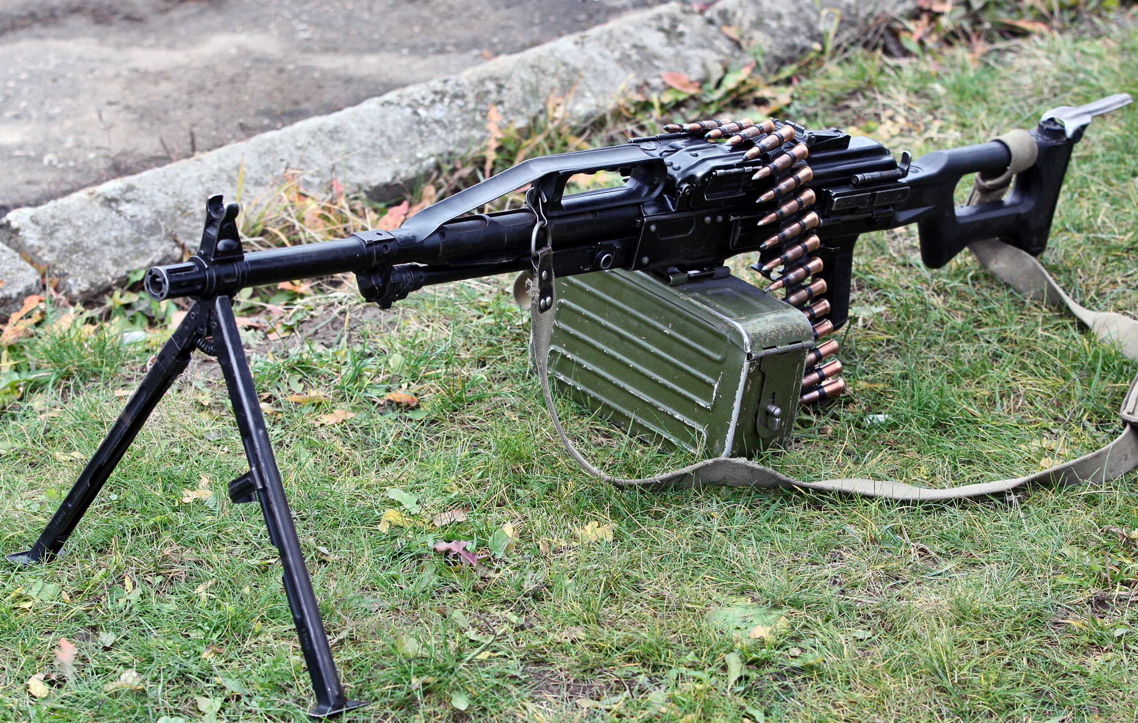 PKP Pecheneg machine gun shooting